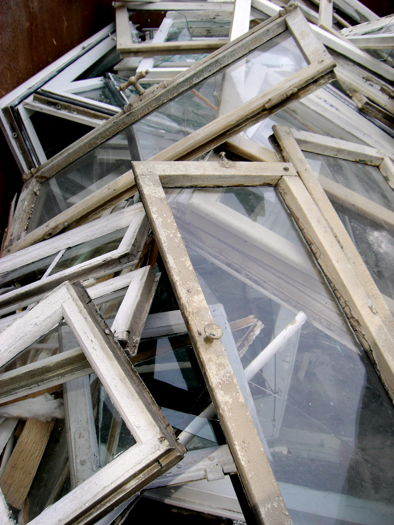 Old discarded windows.